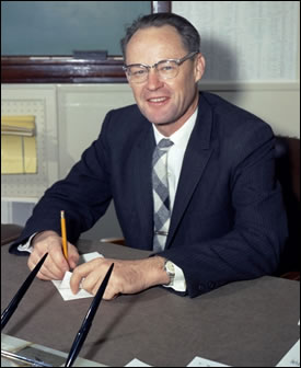 Dr. William B. McLean, pioneer designer of the Sidewinder missile, seated at his desk as technical director of the Naval Ordnance Test Station, China Lake, Calif., November 1960. U.S. Navy photo.